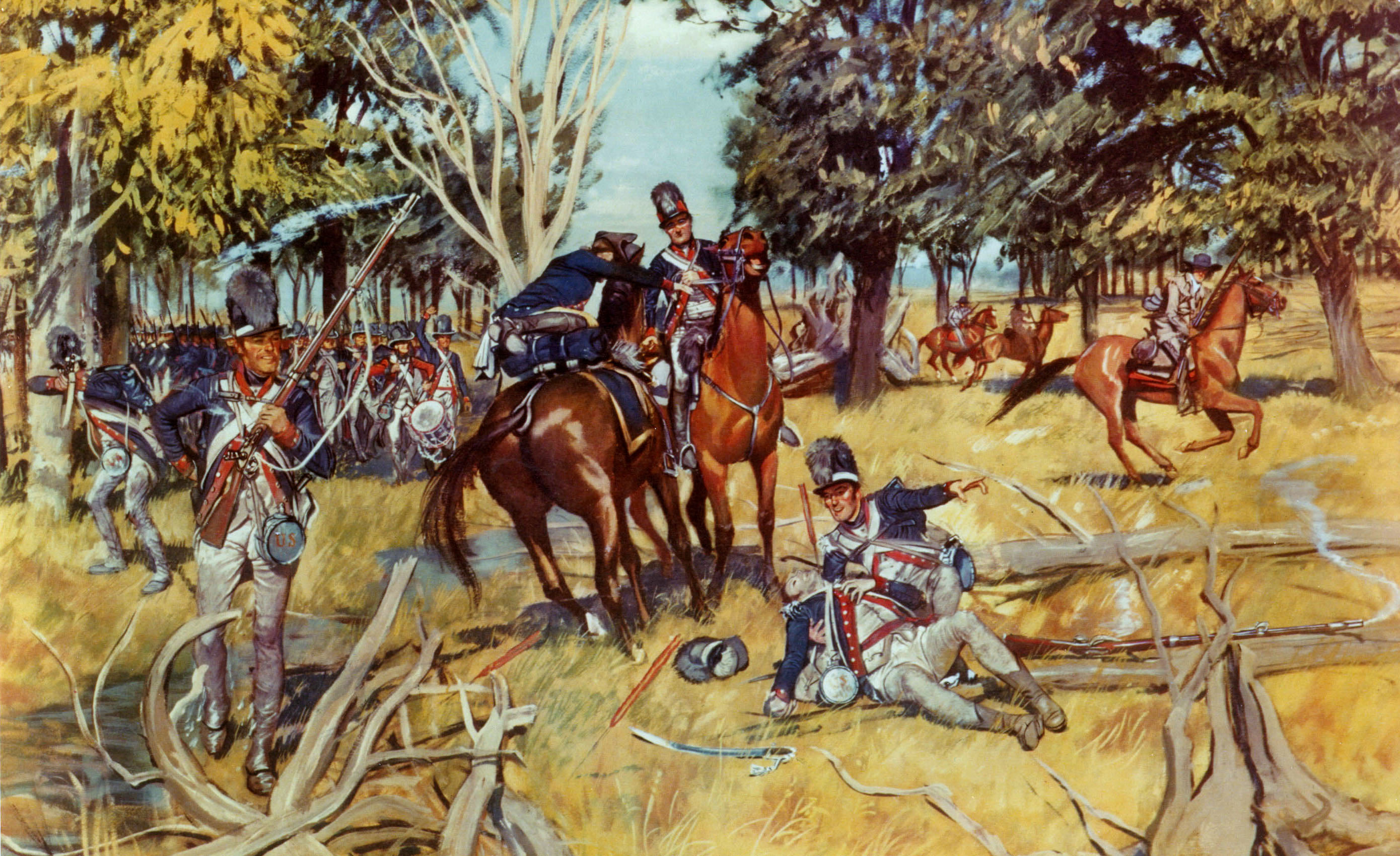 Banks of the Maumee, Ohio, August 1794. Anthony Wayne commanded the Army, enlarged in 1792 and formed into the Legion (now 1st and 3d Infantry Regiments). He trained it into a tough combat team to beat the Indians of the Northwest who had twice whipped us. The Legion advanced into Indian country, feeling its way cautiously. On 20 August 1794 it tracked down the foe, routed him from behind a vast windfall, and destroyed his warriors. Thus the way cleared for the new nation to expand into the Ohio Valley.